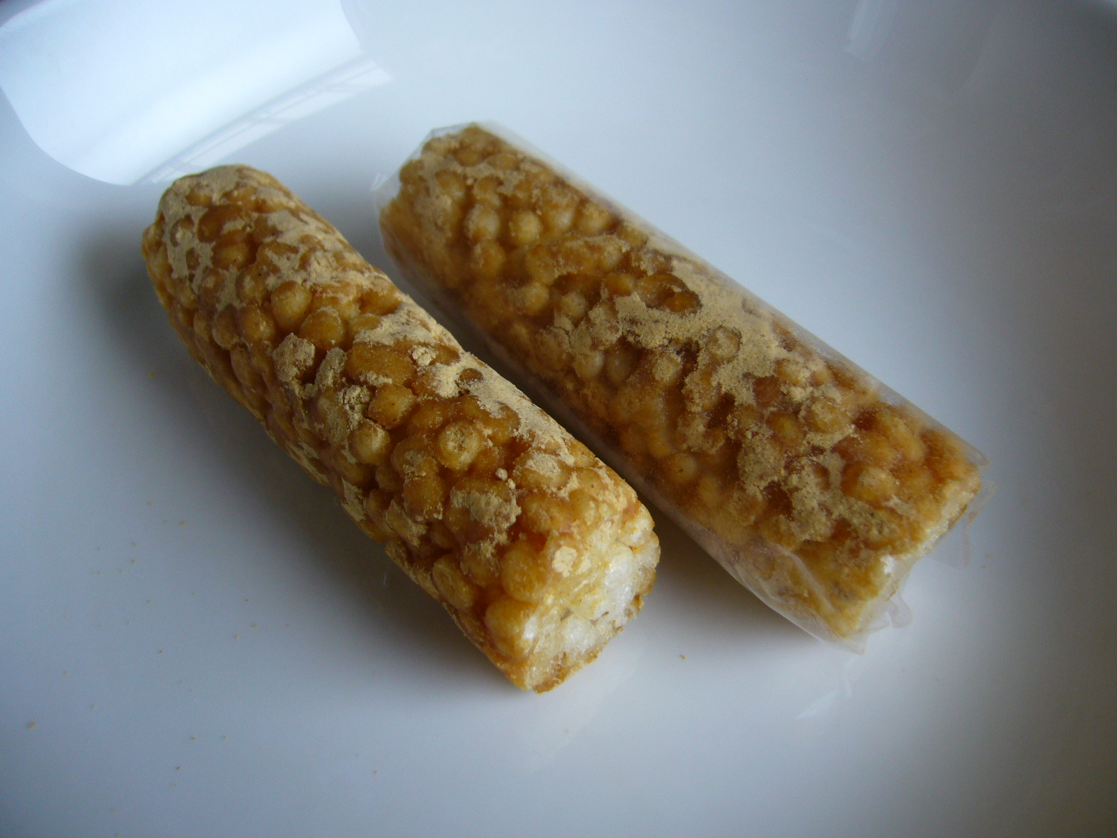 yoshiwara-dencyu, a Japanese sweet of Mito city.